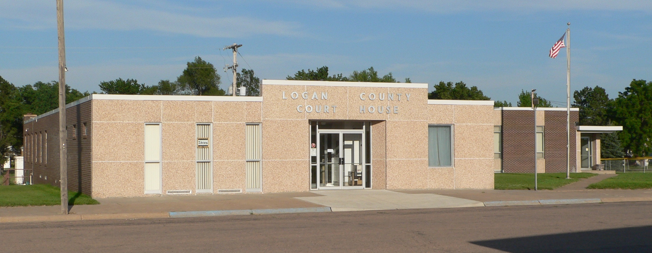 Logan County courthouse in Stapleton, Nebraska; seen from the northwest. According to a plaque inside (photo available), the building was constructed in 1963.